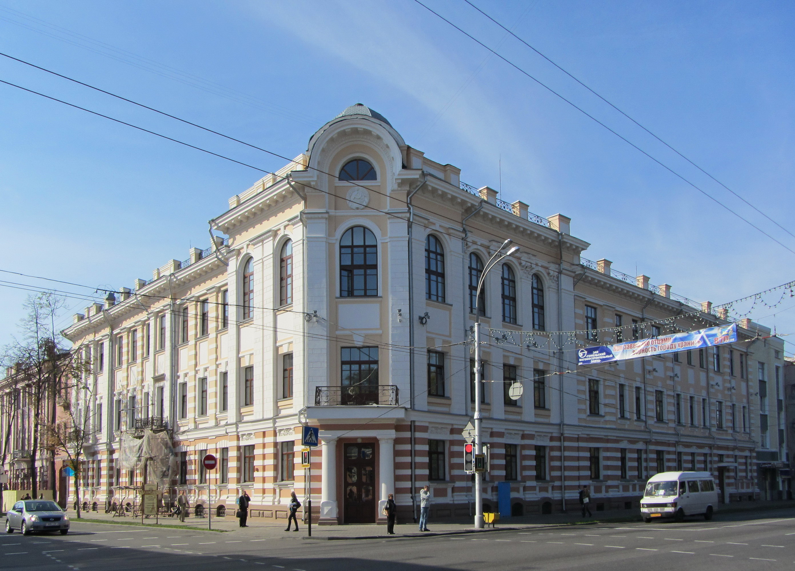 Беларуская (тарашкевіца): Будынак. г. Гомель This is a photo of Belarusian heritage monument. Reference number: 313Г000081 ( WLM)